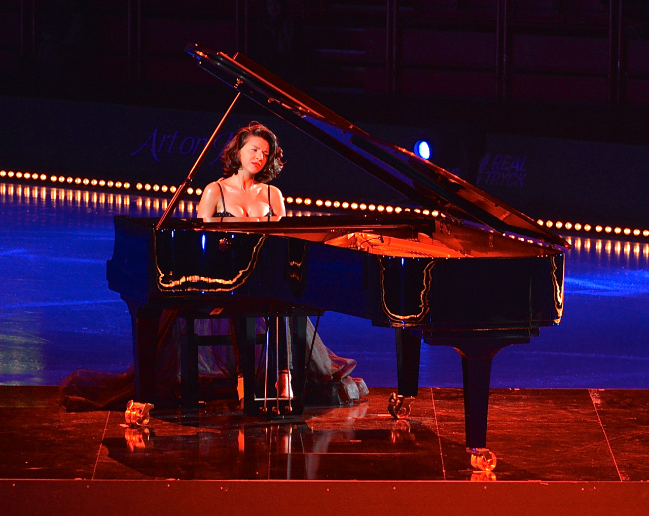 "Art on Ice" at the Globe Arena in Stockholm, March 13, 2014.